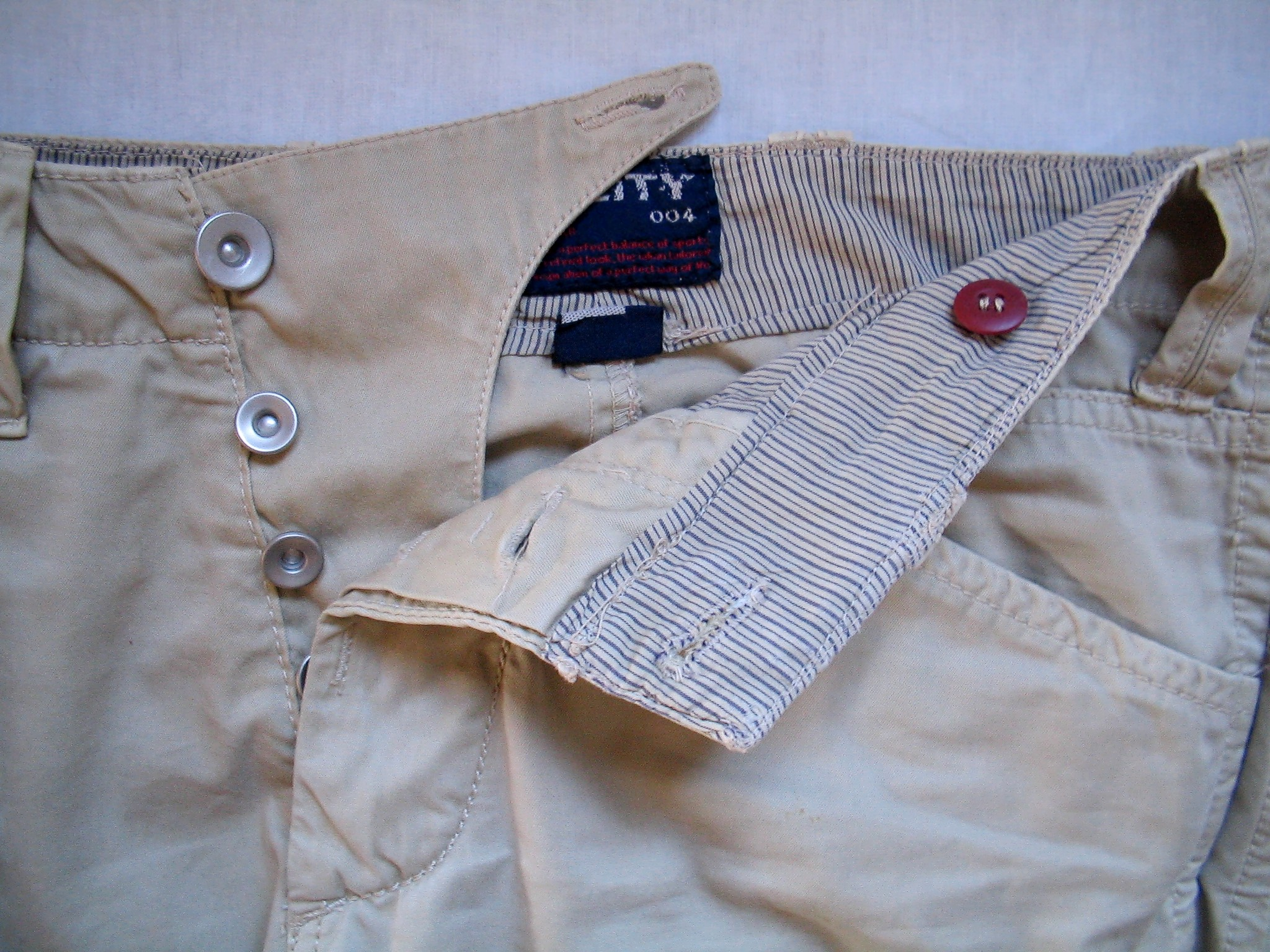 open fly clothing to male type buttons and ancillary closing